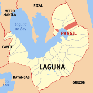 Locator map of Pangil in Laguna, Philippines.